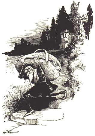 Illustration from the book "Grimm's Fairy Tales", Fitcher's Bird. (1914)